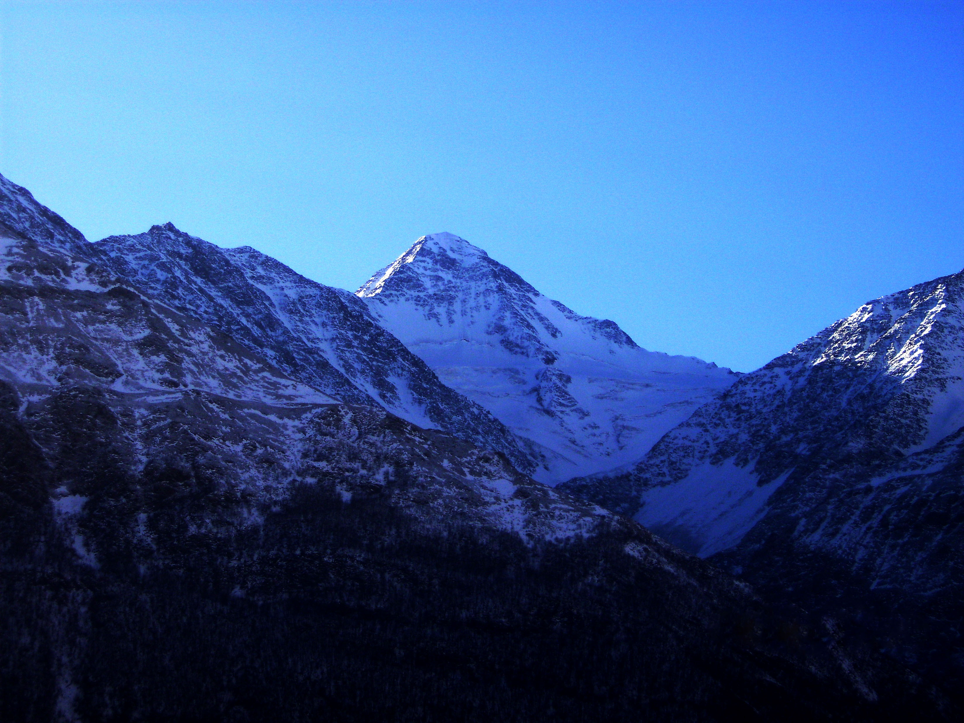 Comito mount in Chechnya